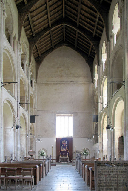 St Mary & Holy Cross, Binham Priory, Norfolk - East end